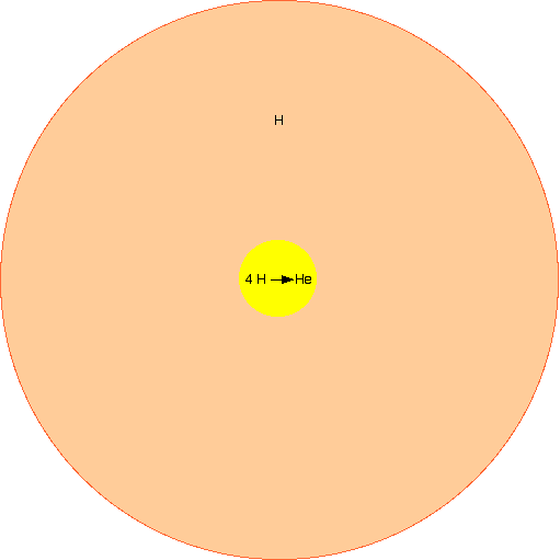 Not to scale schematic cross section of a cold subdwarf-M-Star.